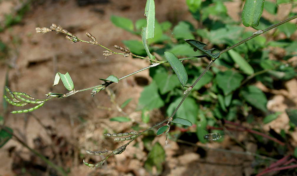 Alysicarpus monilifer (L.) DC. (syn. Hedysarum moniliferum L.) at Deer Park in Shamirpet, Rangareddy district, Andhra Pradesh, India.